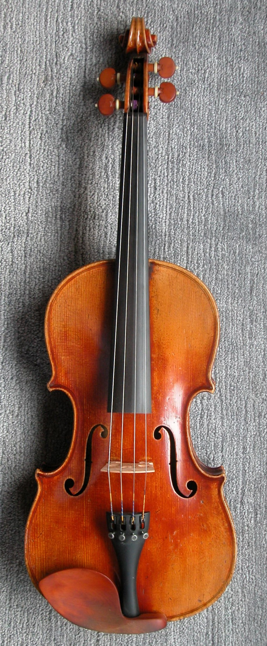 Viola, Geissenhof: "Franciscus Geissenhof fecit. Viennae Anno 1813"